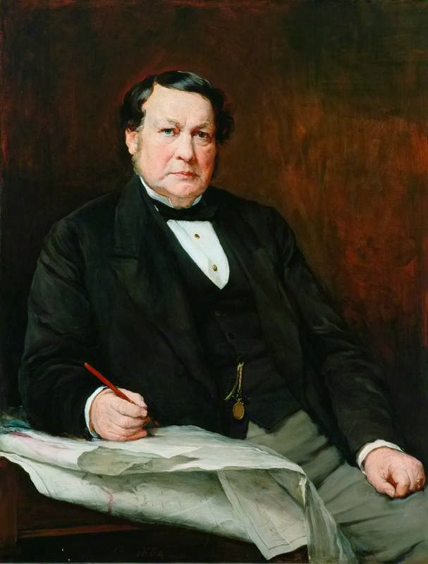 Thomas Eliot Harrison portrait commissioned for the board room of North Eastern Railway.